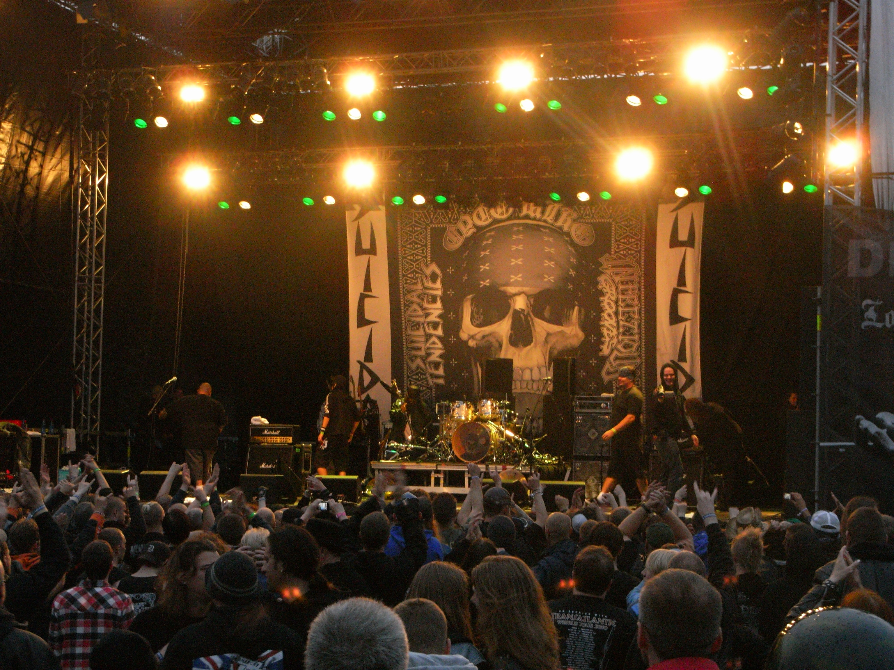 Suicidal Tendencies at Norje, Blekinge, Sweden, 2010.